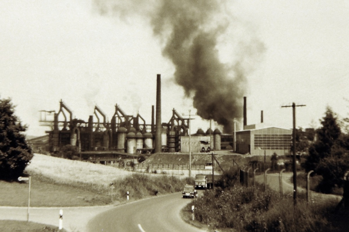 The five blast furnaces with cowper stoves of the Maxhütte ironworks, Sulzbach-Rosenberg, Germany.